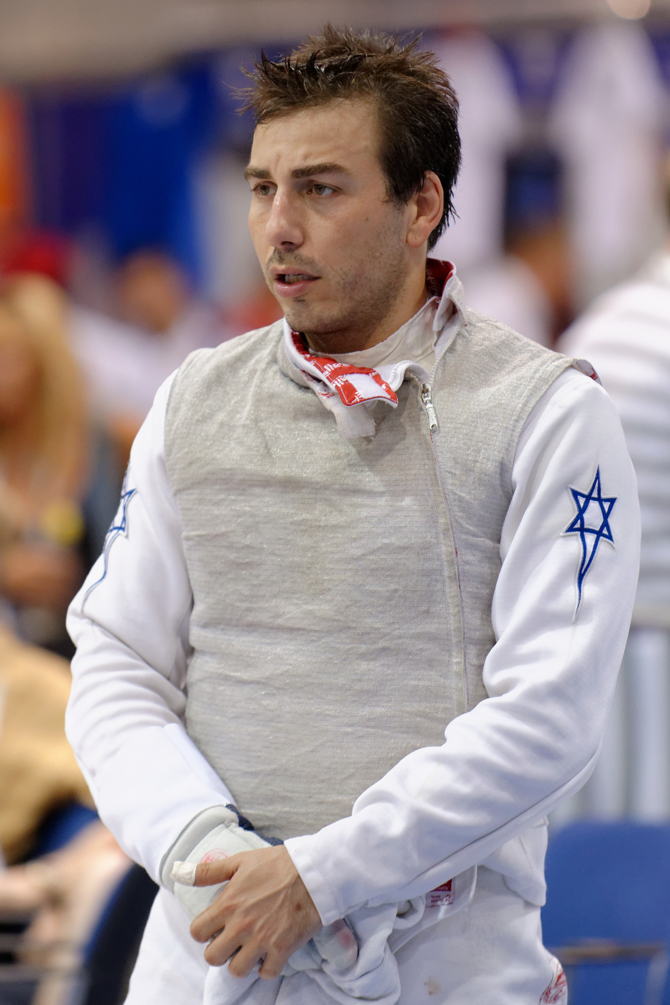 Israel's Tomer Or at the men's team foil event of the 2013 World Fencing Championships 2013 at Syma Hall in Budapest, 12 August 2013.